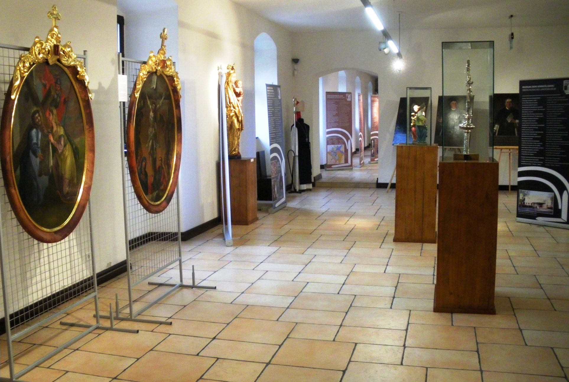 Exhibition about the secularization in Silesia - former cistercian abbey in Rudy